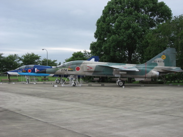 Exhibit of aircraft of the Japan Air Self-Defence Force in the Ibaraki Prefecture. The first aircraft (in green camouflage) is a fighter Mitsubishi F-1, and the second (in blue colors) is a trainer aircraft Mitsubishi T-2.